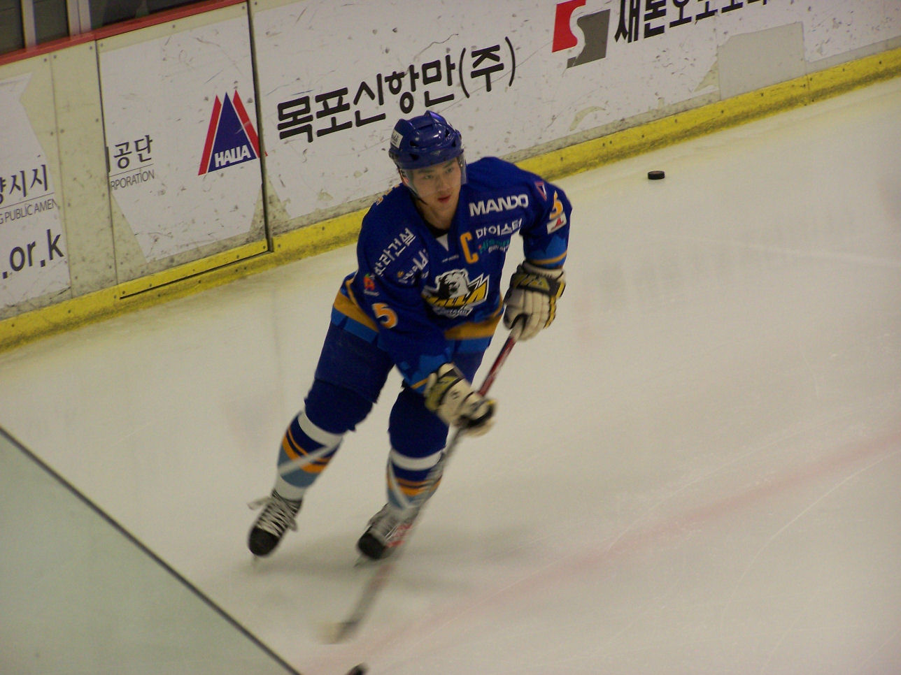 Kim Woo-Jae captain of the Anyang Halla pre-game January 17, 2009